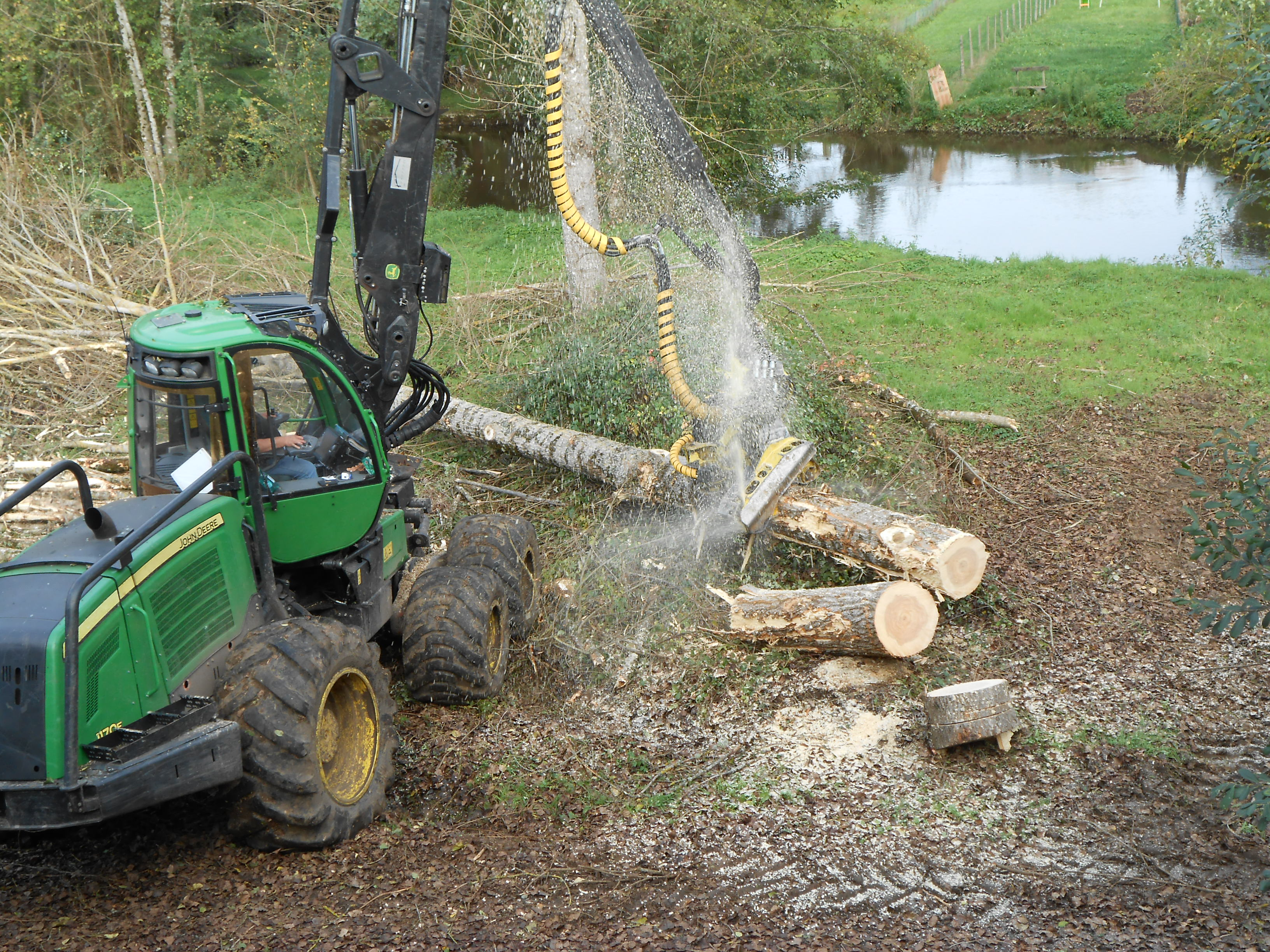 John Deere 1170E feller buncher, France.